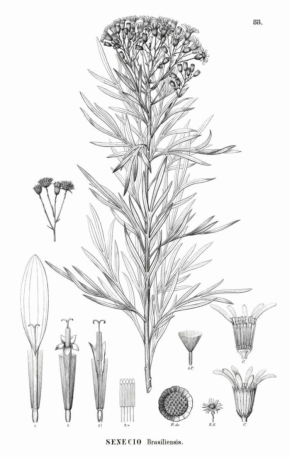 Illustration of Senecio brasiliensis from Flora Brasiliensis, enumeratio plantarum in Brasilia hactenus detectarum